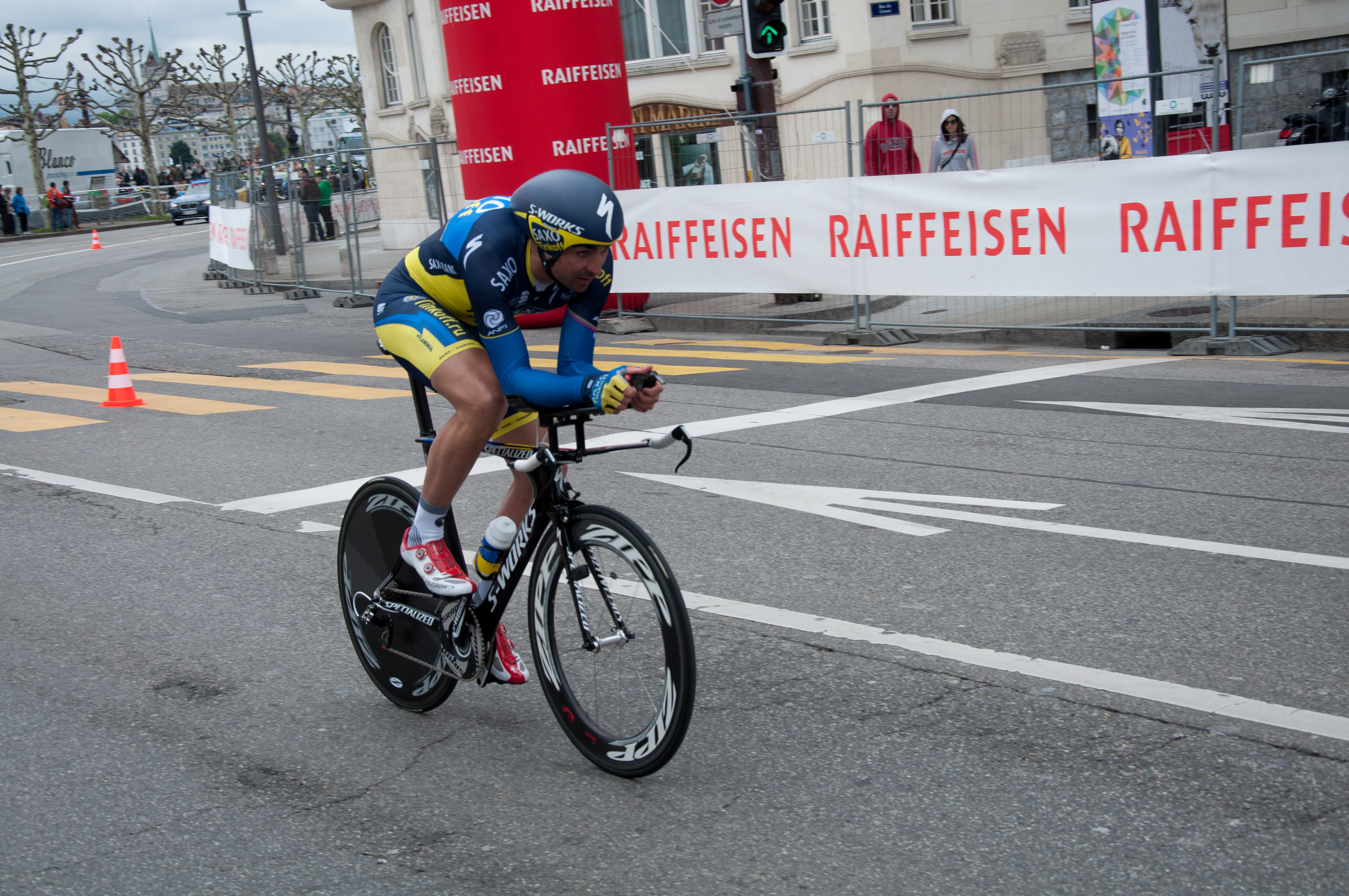 Spanish professional cyclist Benjamín Noval racing the 2013 Tour de Romandie's fifth stage.